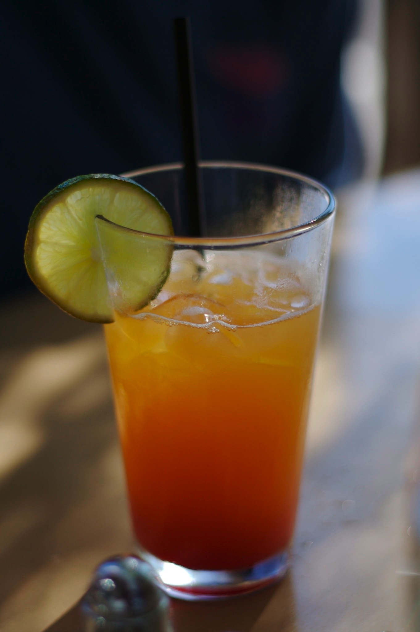 Canadia-style Shirley Temple: "Beautiful *and* delicious. Grenadine, 7-up, Orange juice, Lime, Straw" (drink, Vancouver, Shirley Temple, orange)